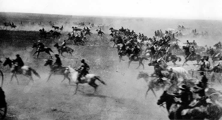 1889 Oklahoma Land Rush. Caption: Oklahoma Land Rush of 1889. John Sherwood is on the white horse. Elias McClenny is ahead of John. Fred McClenny is just behind John. Source: McClenny Family Picture Album] , Copyright expired Category:Images of Oklahoma